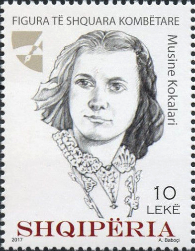 Distinguished National Personalities